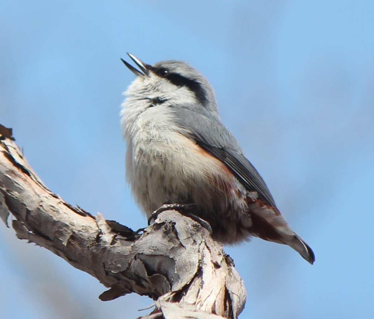 Sitta europaea hondoensis (Eurasian Nuthatch) singing on tree, in Mount Funabuse, Yamagata, Gifu prefecture, Japan.